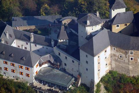 Lockenhaus, Austria, aerialphotography